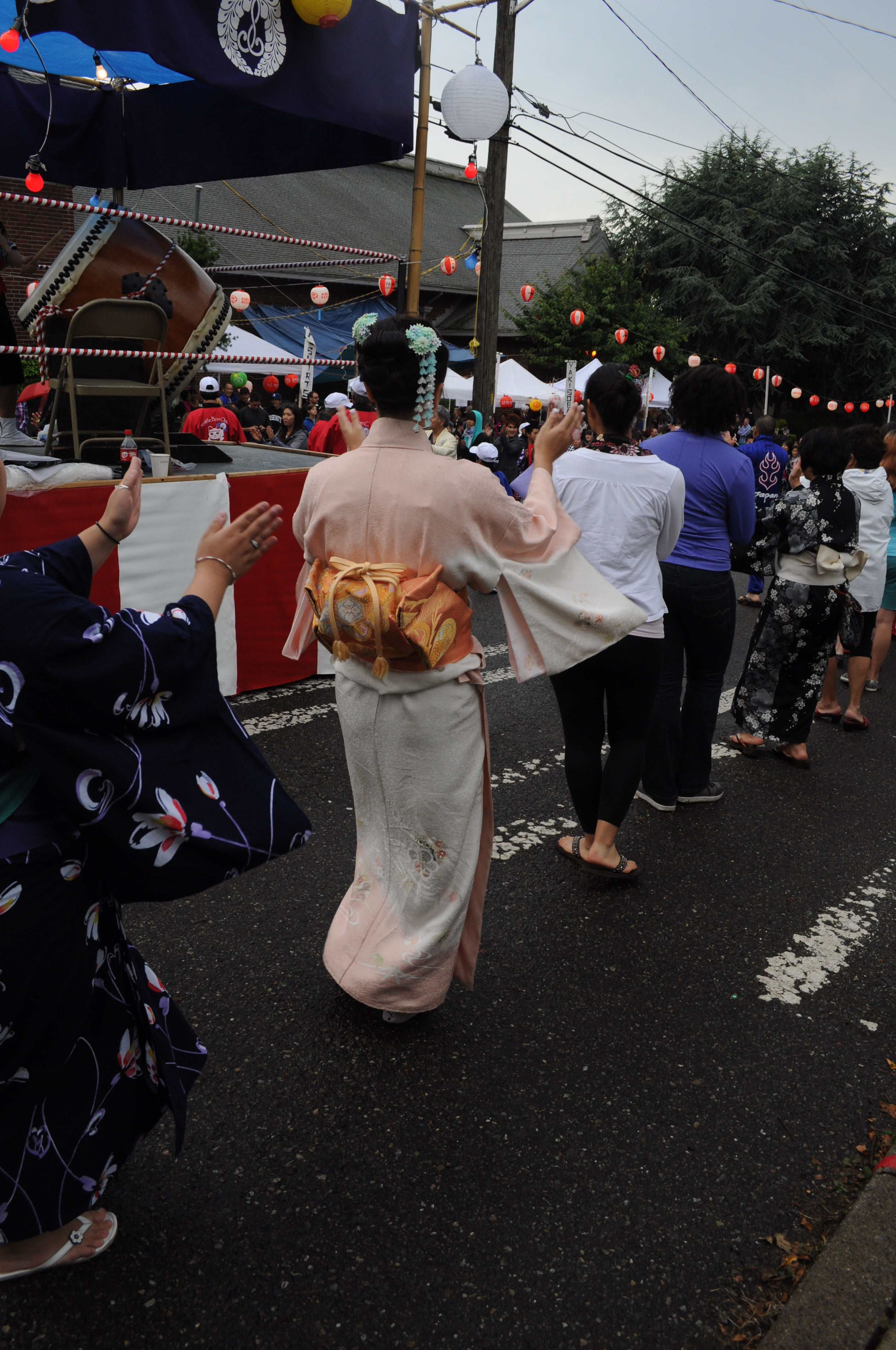 Bon Odori 2011, Seattle, Washington, USA.